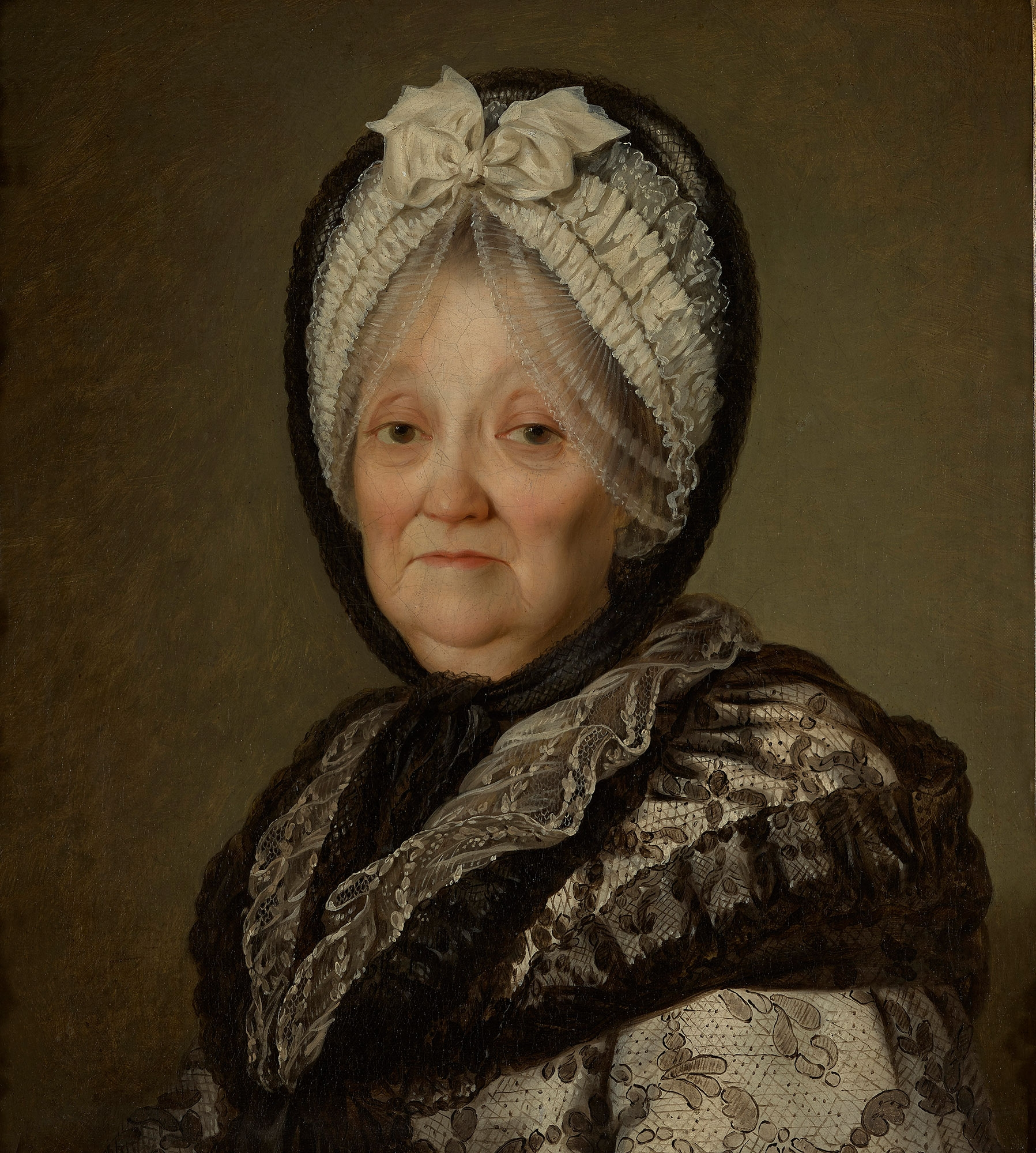 Portrait of Aleksandra Ivanovna Kurakina (1711-1786), Russian princess